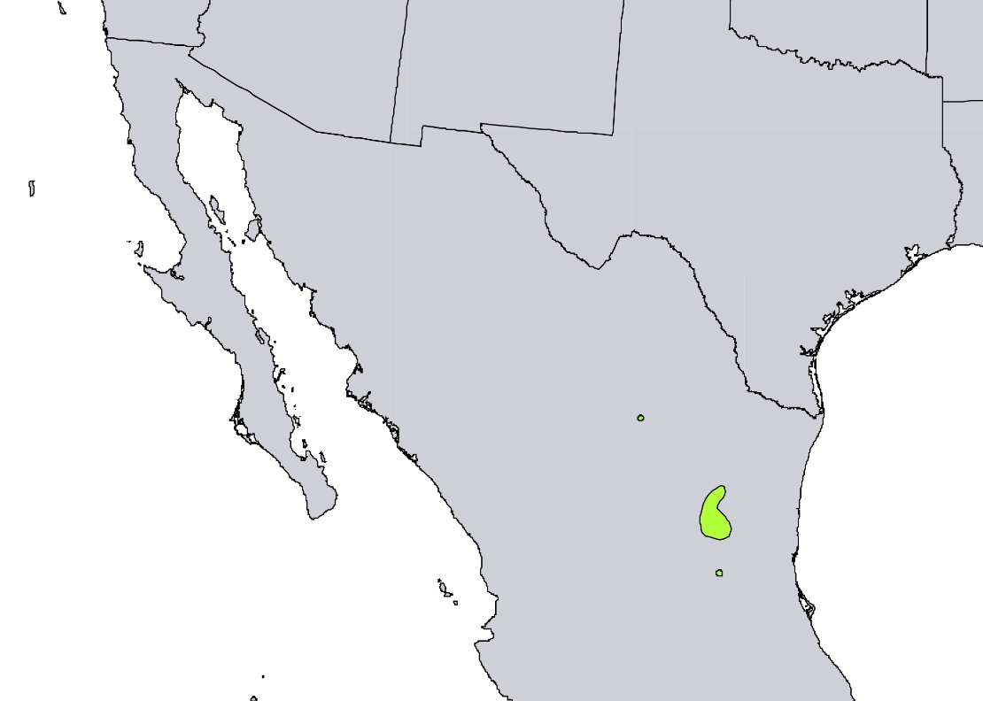 Range map of Pinus nelsonii